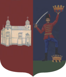 Small Coat of Arms of Vojvoda Stepa